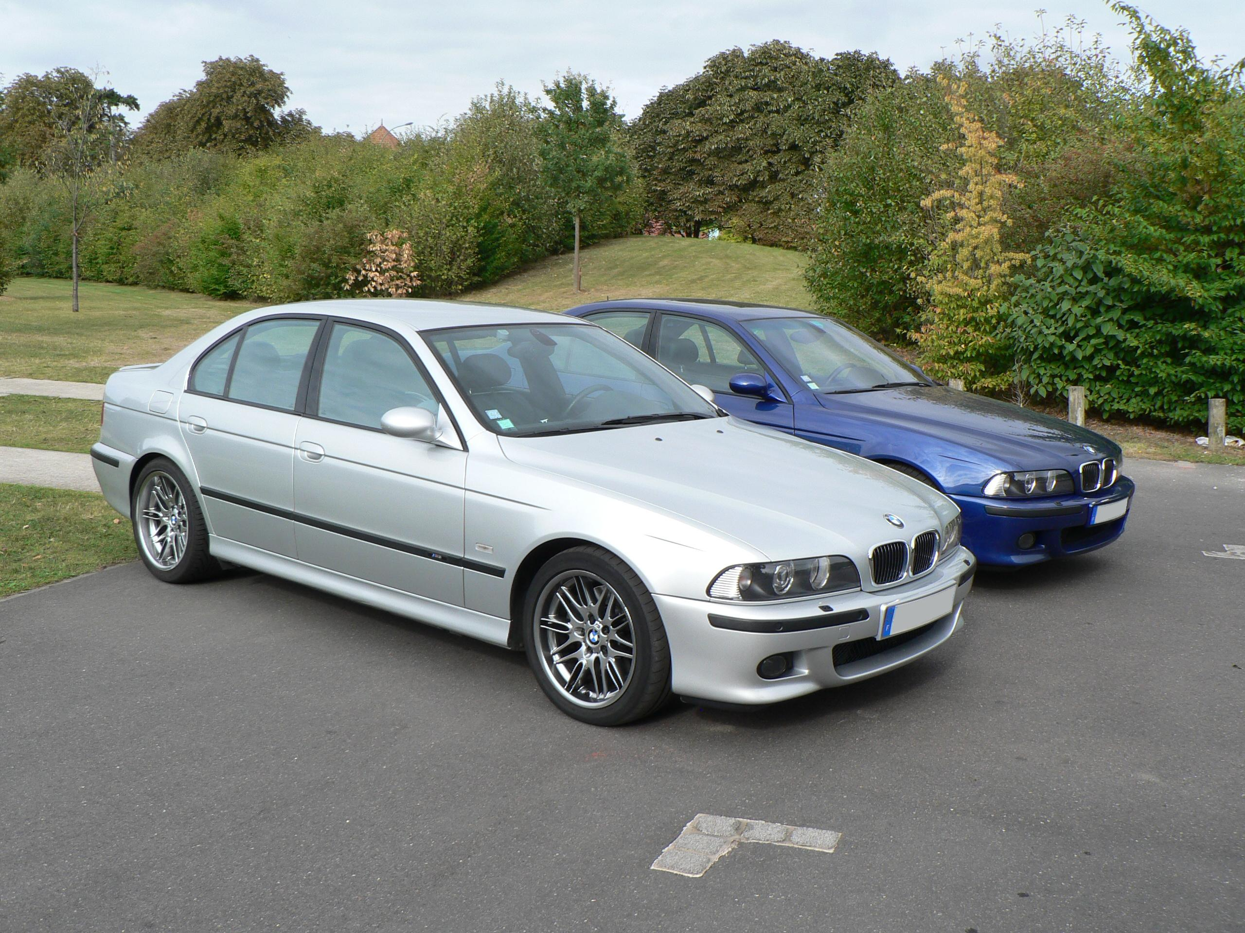 Two BMW M5 E39